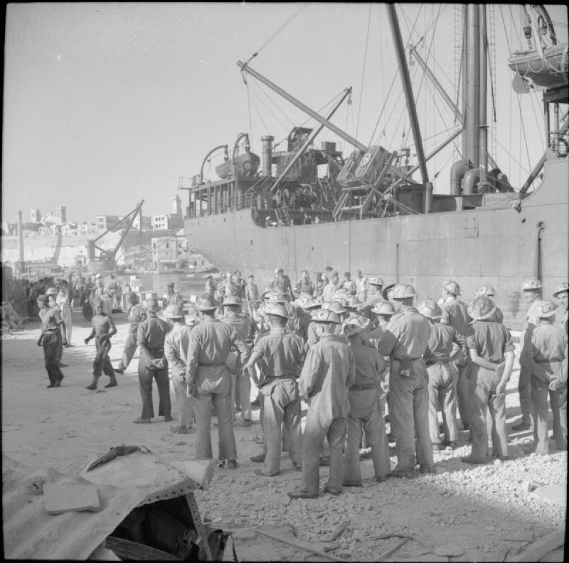 The British Army on Malta 1942 Soldiers wait to board a merchant ship to unload supplies at a dock in Grand Harbour, 16 July 1942.